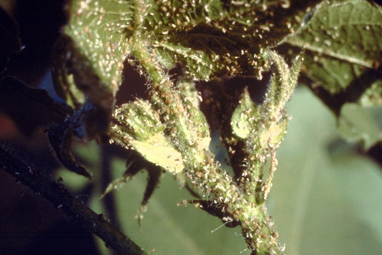 infestation of Aphis gossypii on cotton